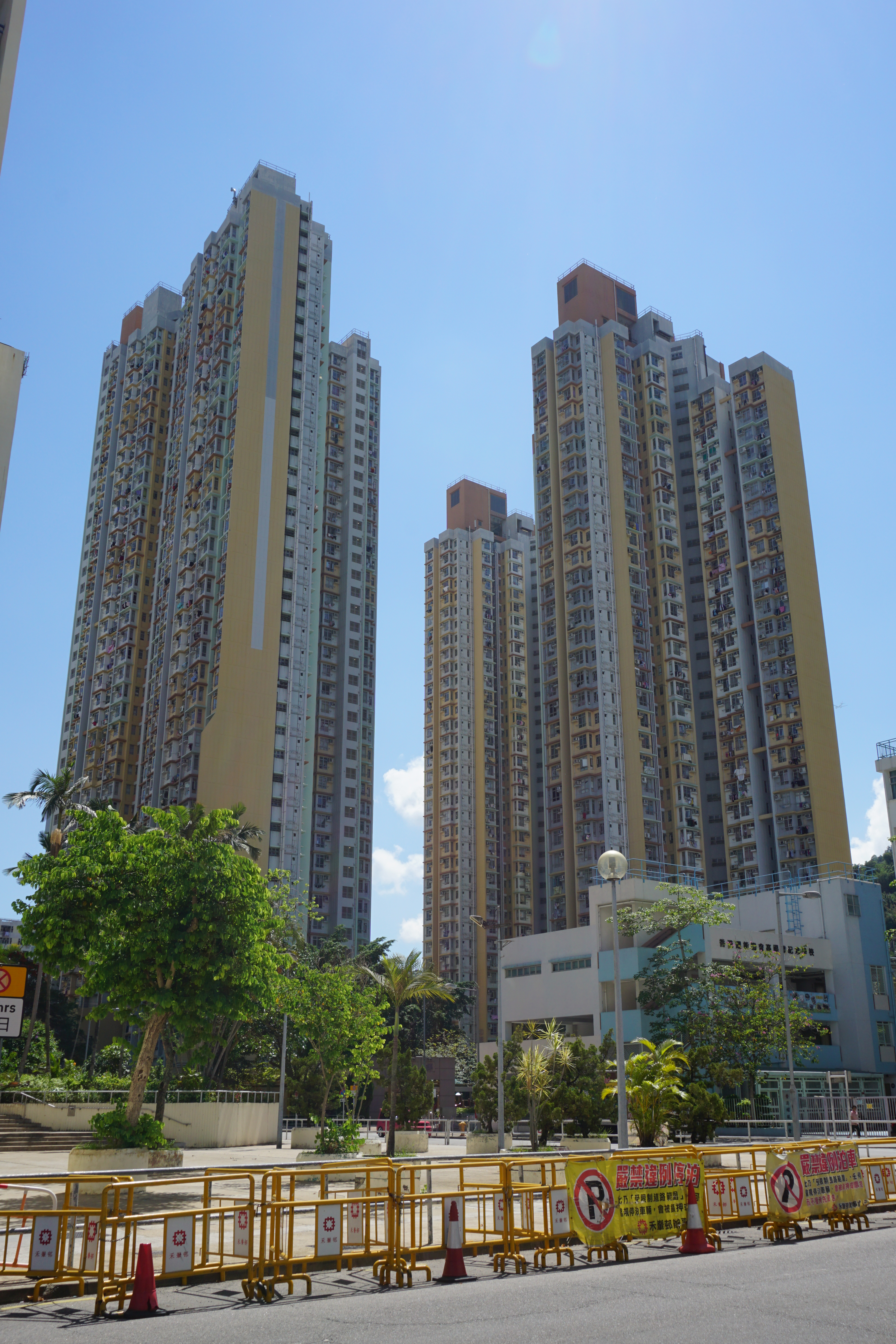 Fung Wo Estate in Shatin, Hong Kong.